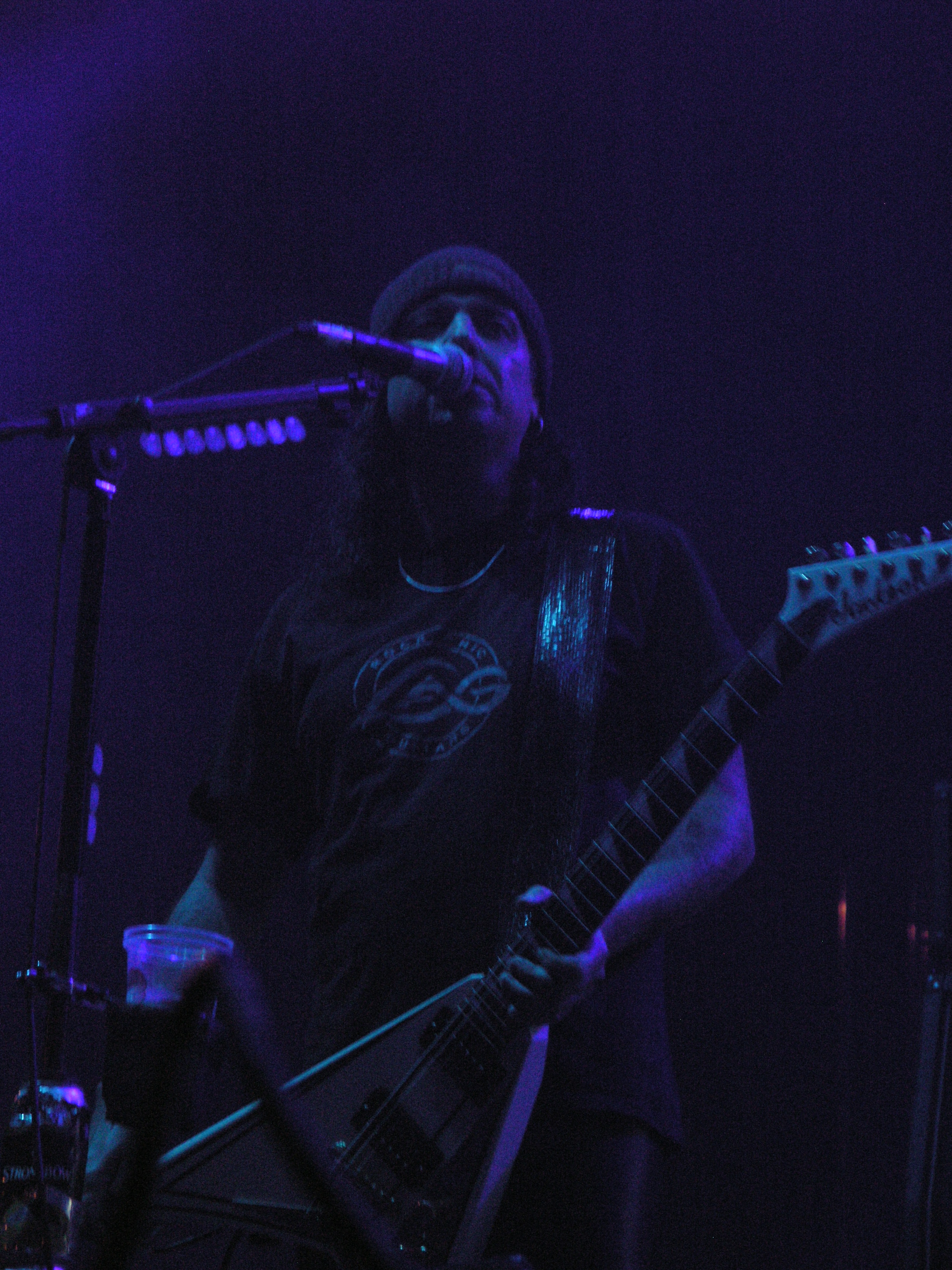 Phil Campbell from Motörhead during Masters of Rock 2007 festival